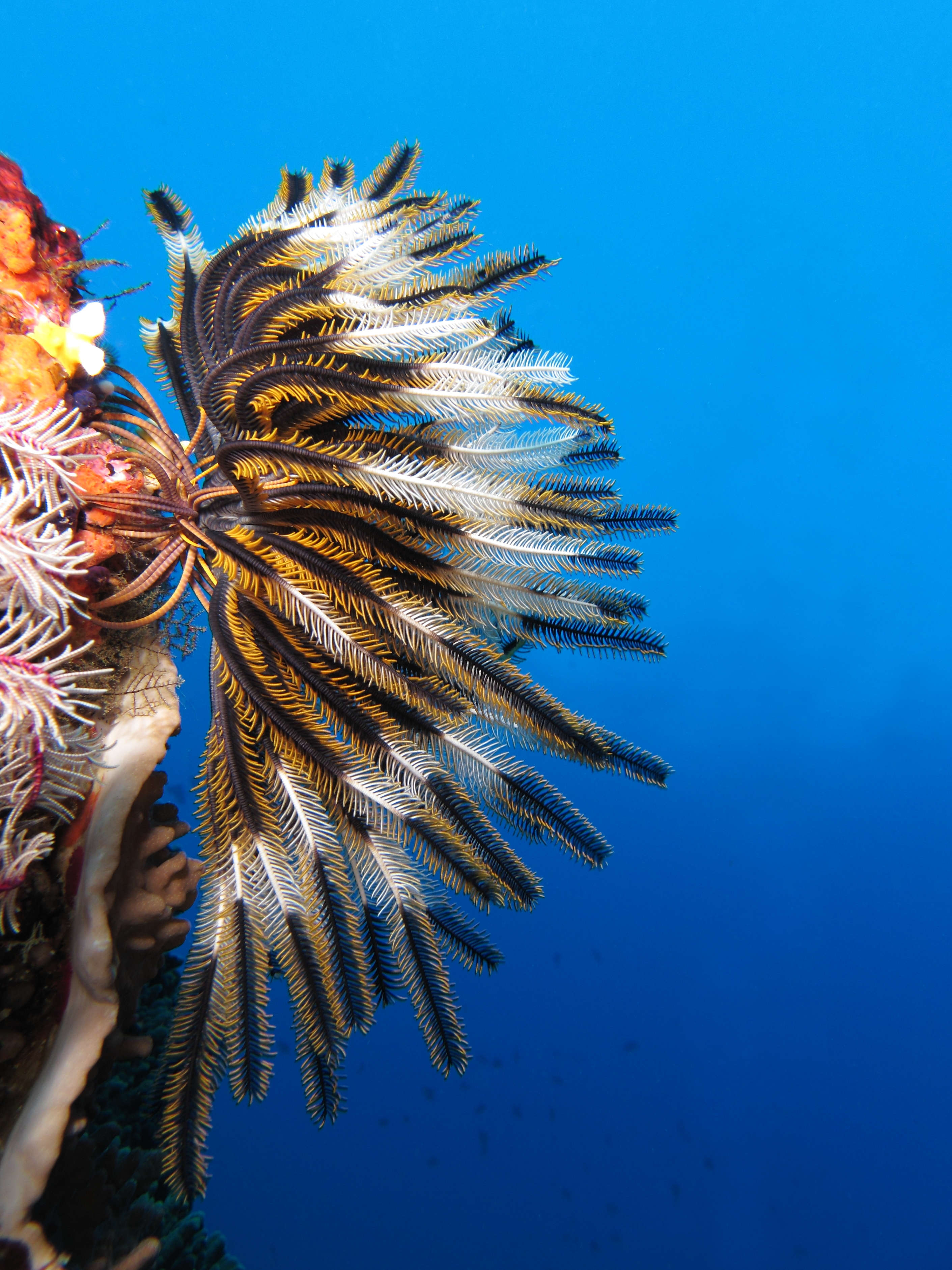 Crinoid on the reef of Batu Moncho Island (near Komodo, Indonesia)